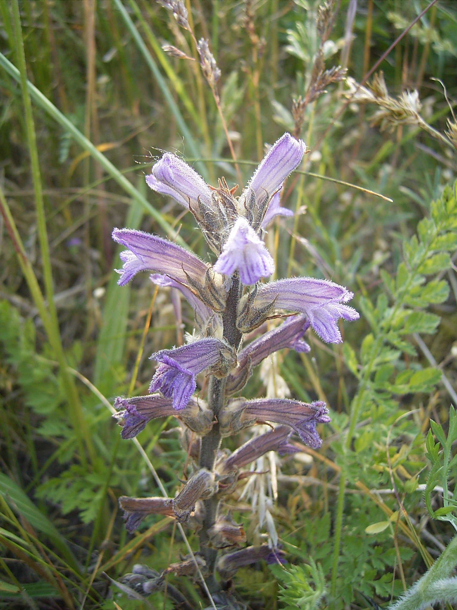 This photo shows the Orobanche purpurea. I took this photo on June 20, 2005 in the dunes of Katwijk, Netherlands.